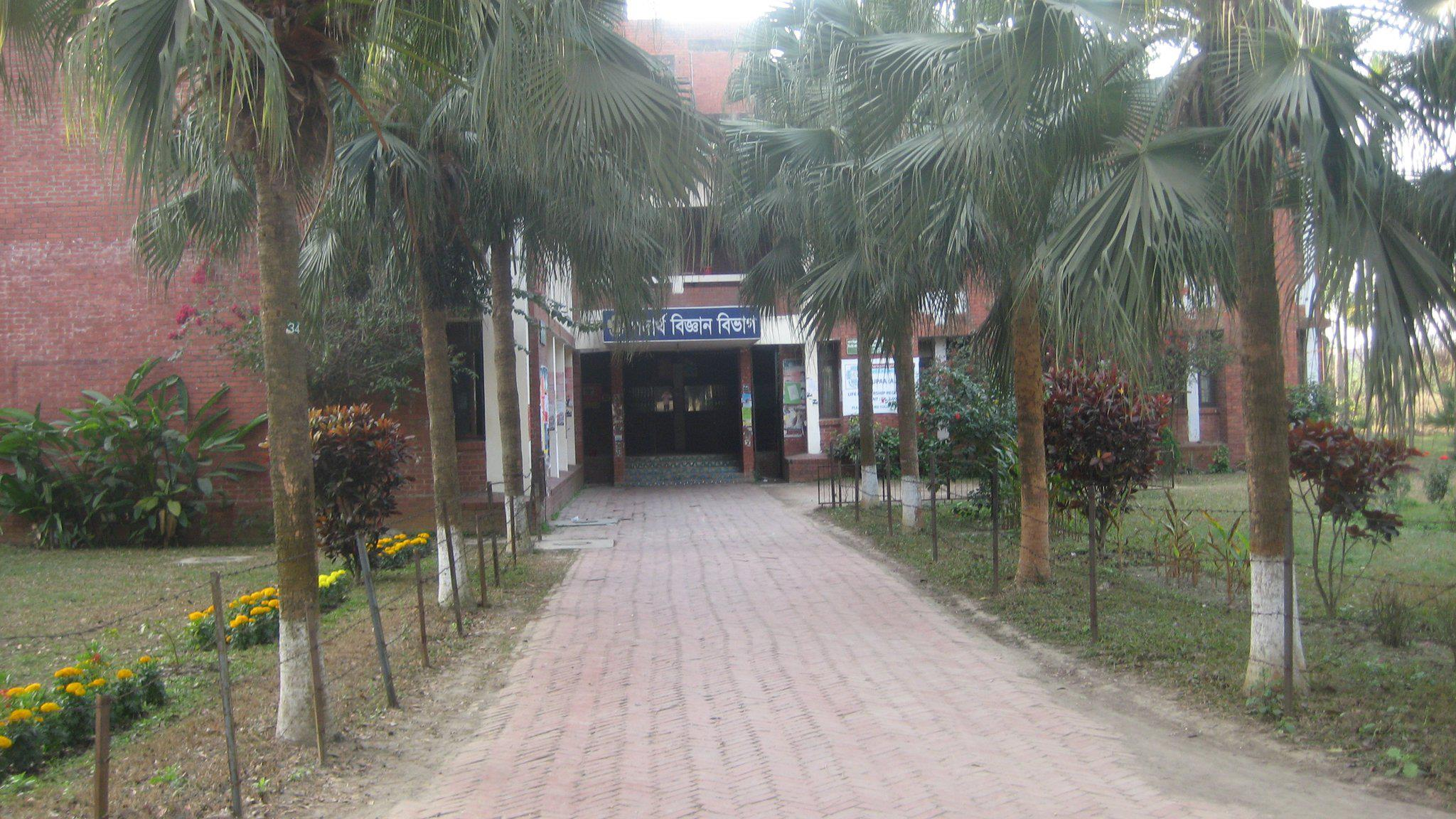 পদার্থ বিজ্ঞান বিভাগ - JU